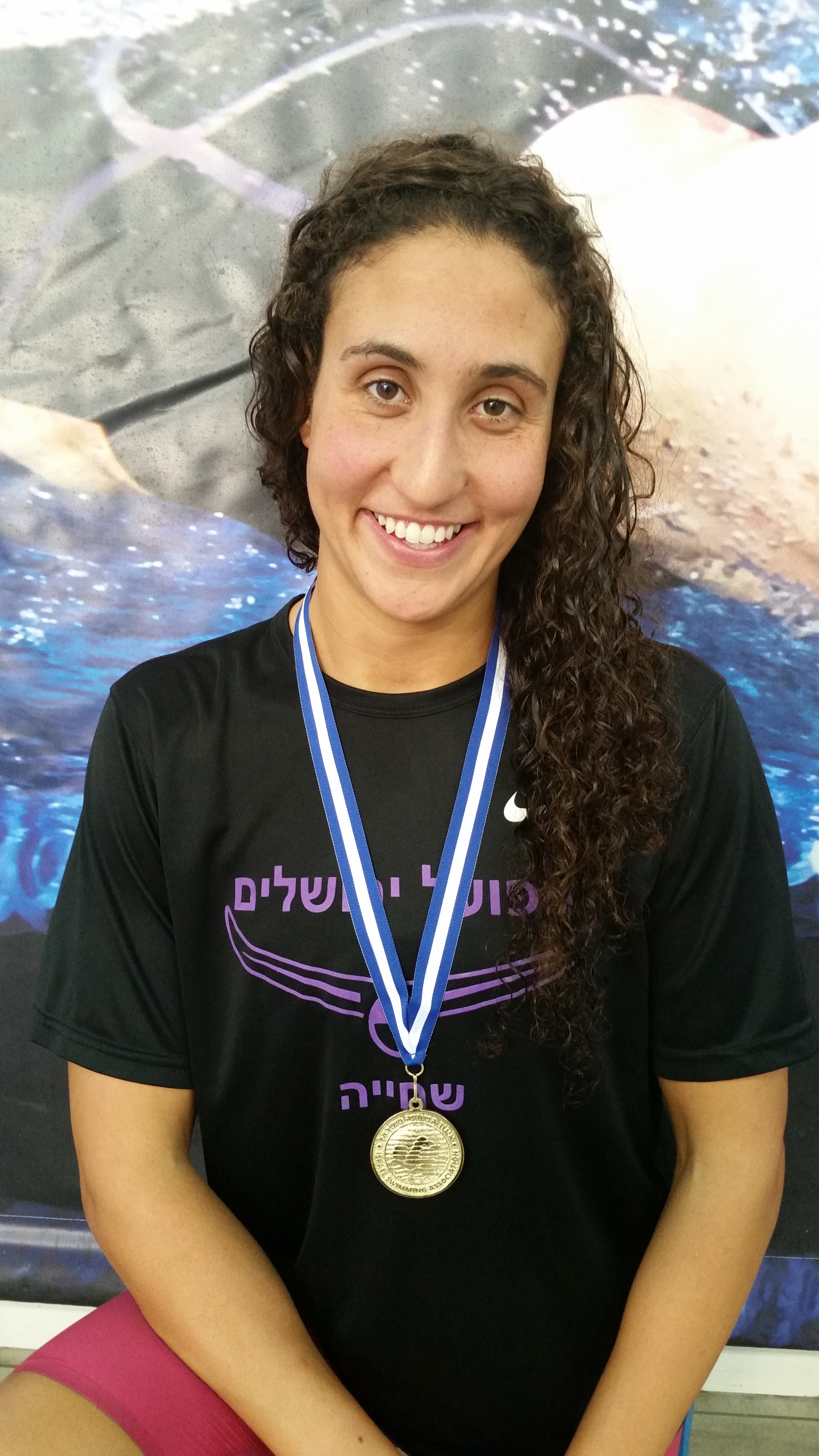 Andrea Murez, Israel swimming championship, July 2016